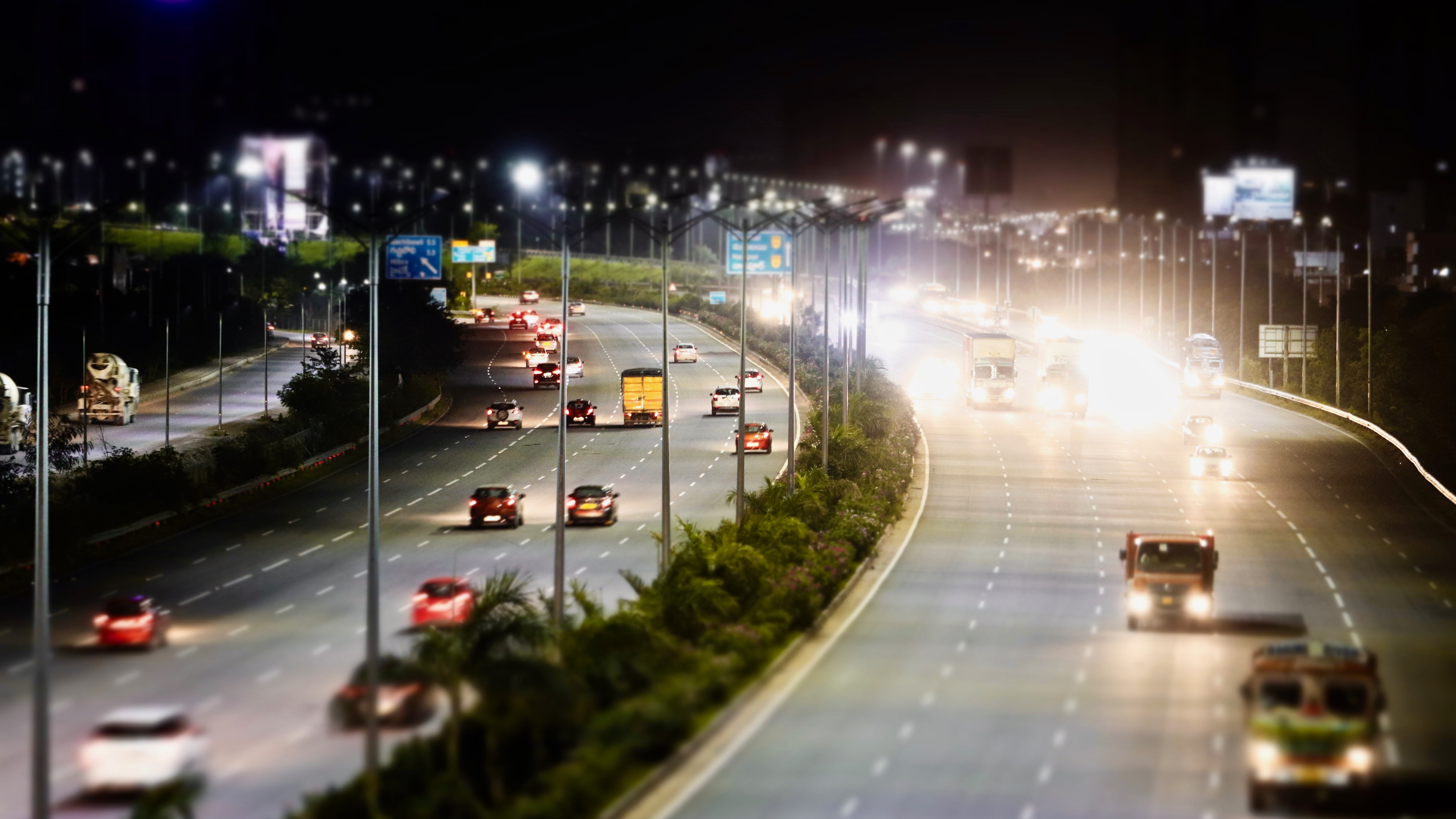 Outer Ring Road or Nehru Outer Ring Road is a 158 kilometre, 8-lane ring road expressway encircling the capital city of Hyderabad, Telangana, India. The concept of First outer ring road in india was idea of N. Chandrababu Naidu, chief minister in 2001 with 158 km long surrounding the hyderabad have been proposed to decongest the traffic problem of the metropolitan region and to provide orbital linkage to arterial roads, access to the international airport and to other important urban node and the first phase completed in 2005